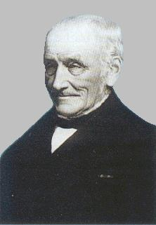 Daguerrotype of the shipbuilder and shipowner Fop Smit (1777-1866)